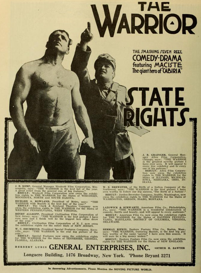 Advertisement in Moving Picture World, Dec 1917 for the Italian film Maciste alpino (1917) under the American title The Warrior with Bartolomeo Pagano.